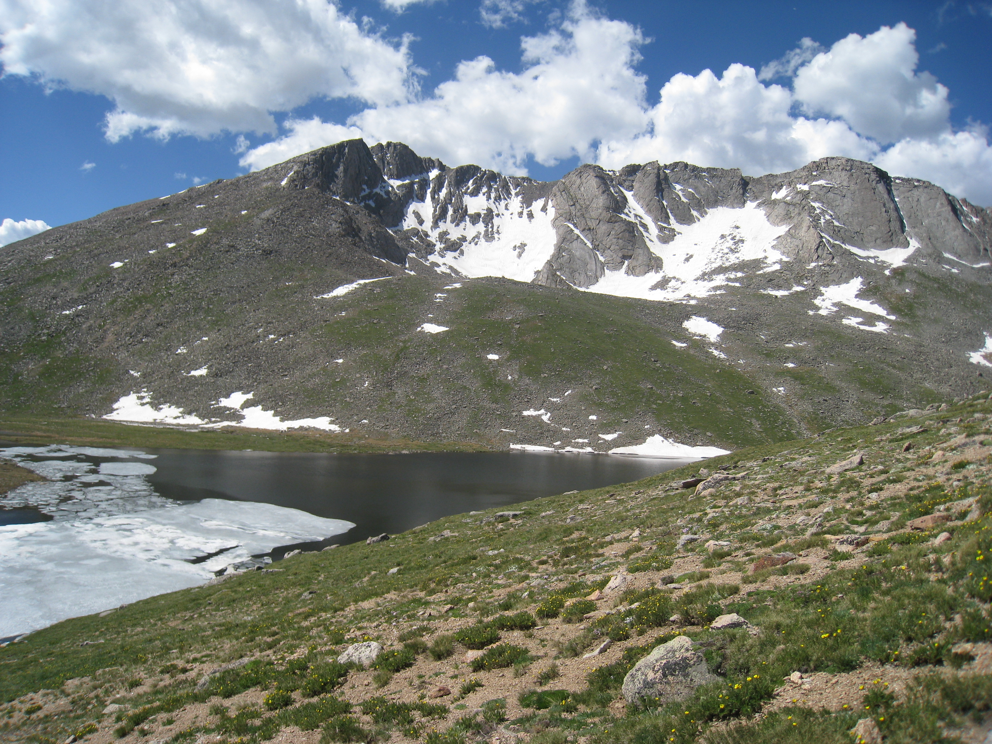 Mount Evans with Summit Lake